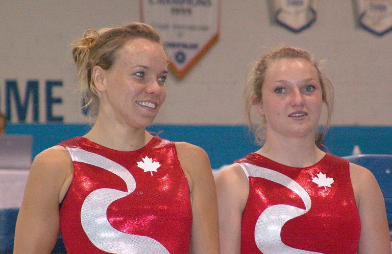 Image of Karen Cockburn and Rosannagh MacLellan, Canadian trampolinists taken in August 2007 in Hamilton Ont at the Canada Cup competition. — [Unsigned comment added by Trampqueen (talk • contribs) 03:26, 20 August 2007.]